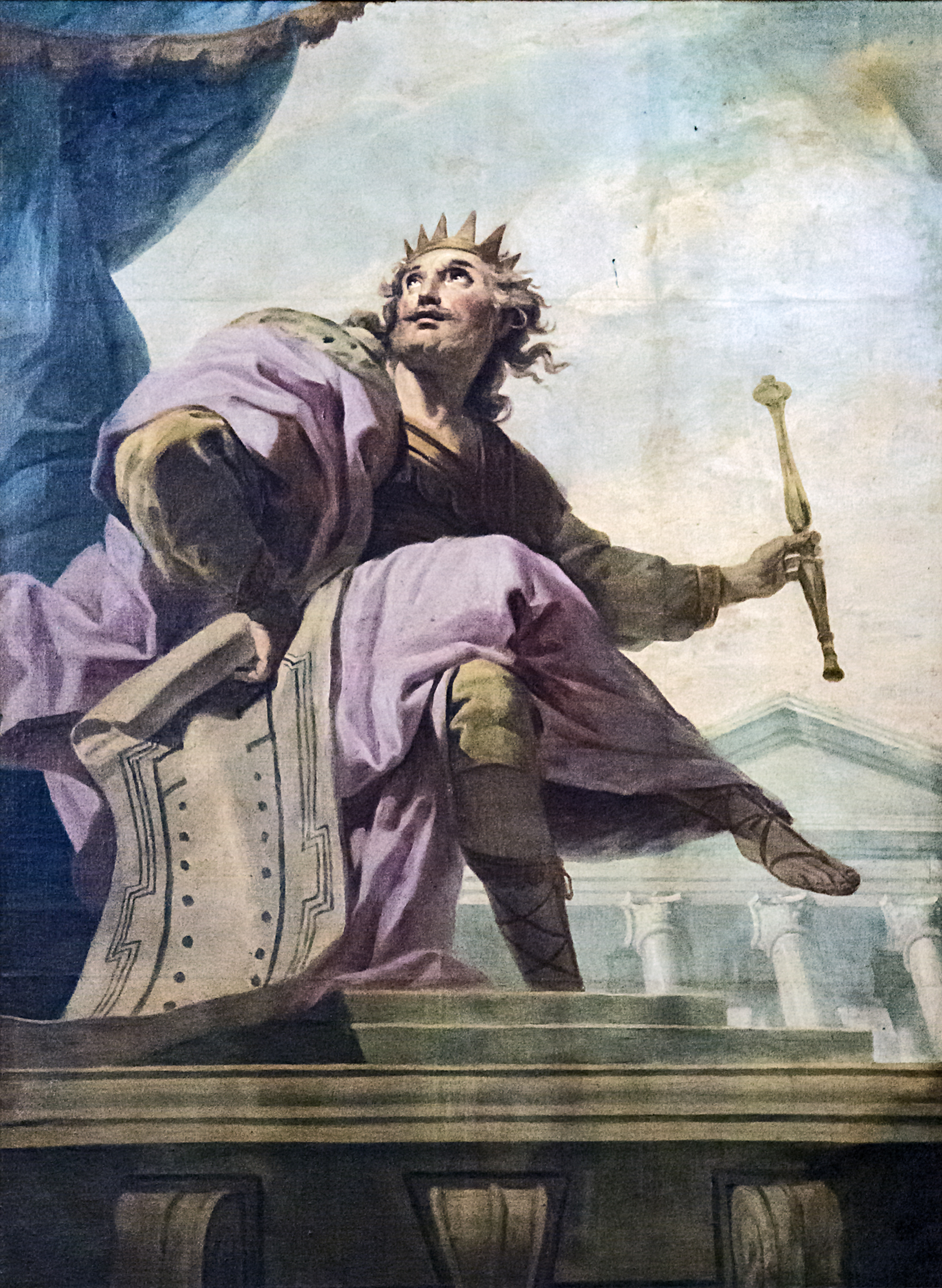 Solomon holding the map of Jerusalem by Jean-Baptiste Despax - Toulouse Cathedral. Oil on canvas